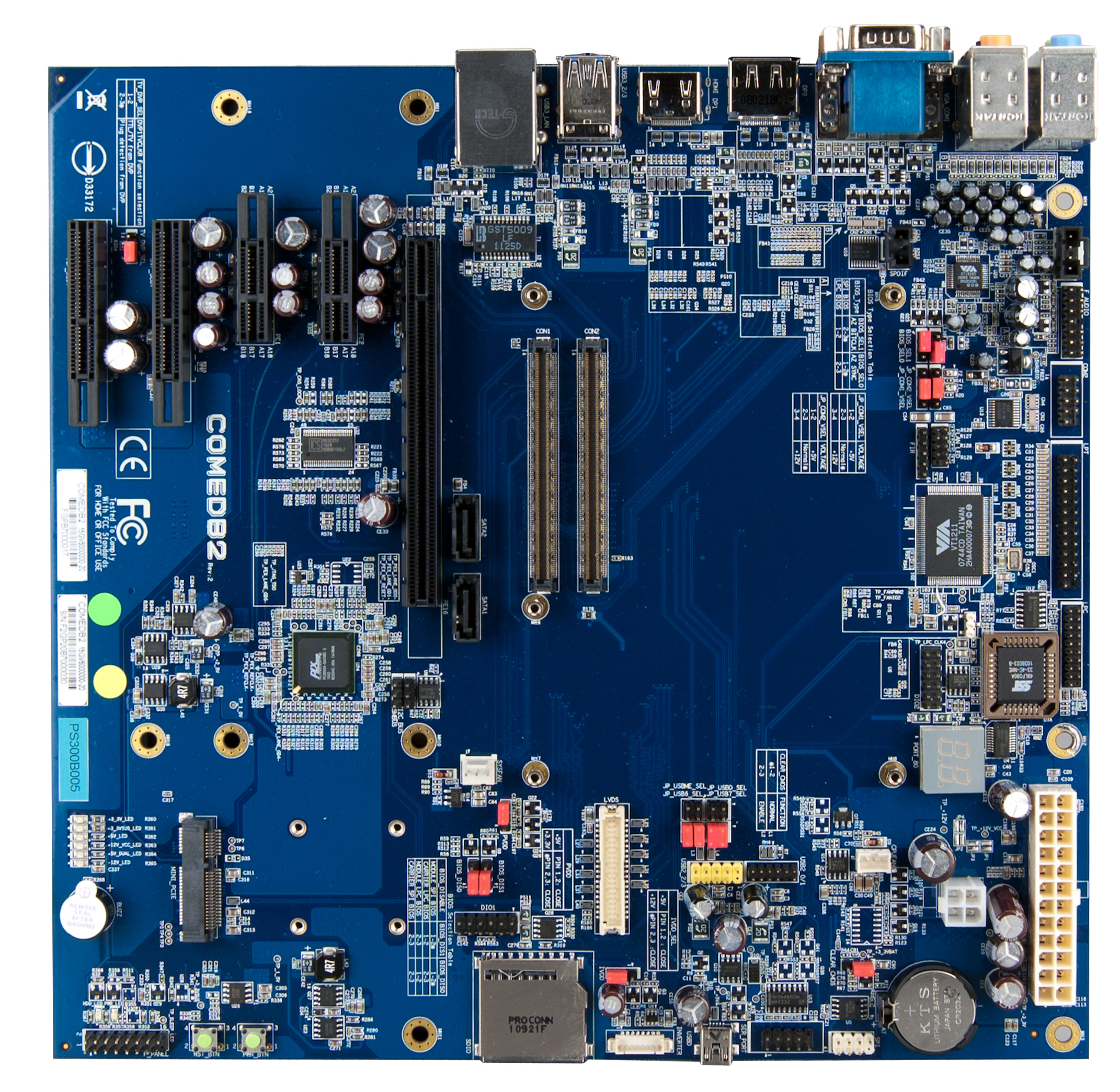 Offering best-in-class support, the VIA COMe-8X92 module offers a next-generation platform for embedded applications. Baseboard shown here from the top.